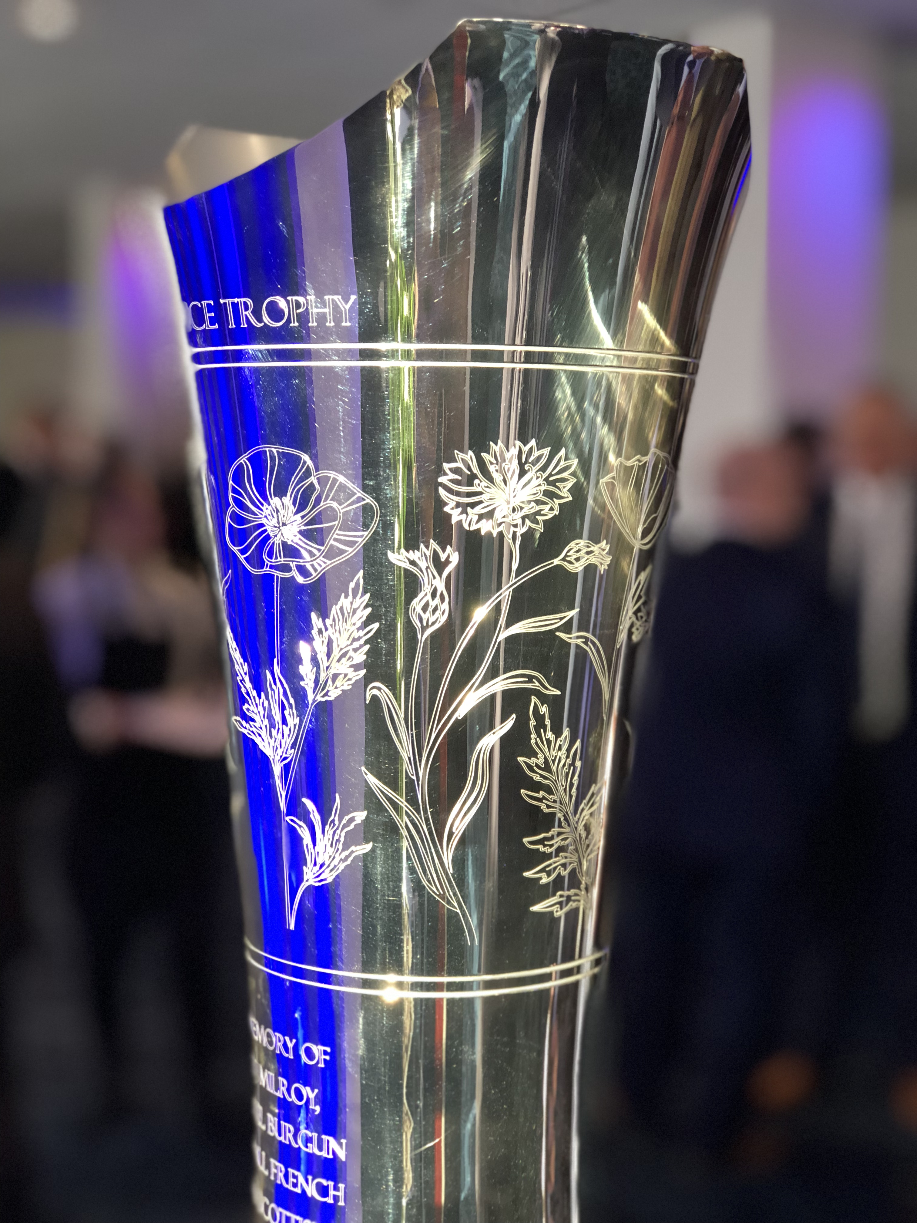 Auld Alliance Trophy at Murrayfield, 11 February 2018